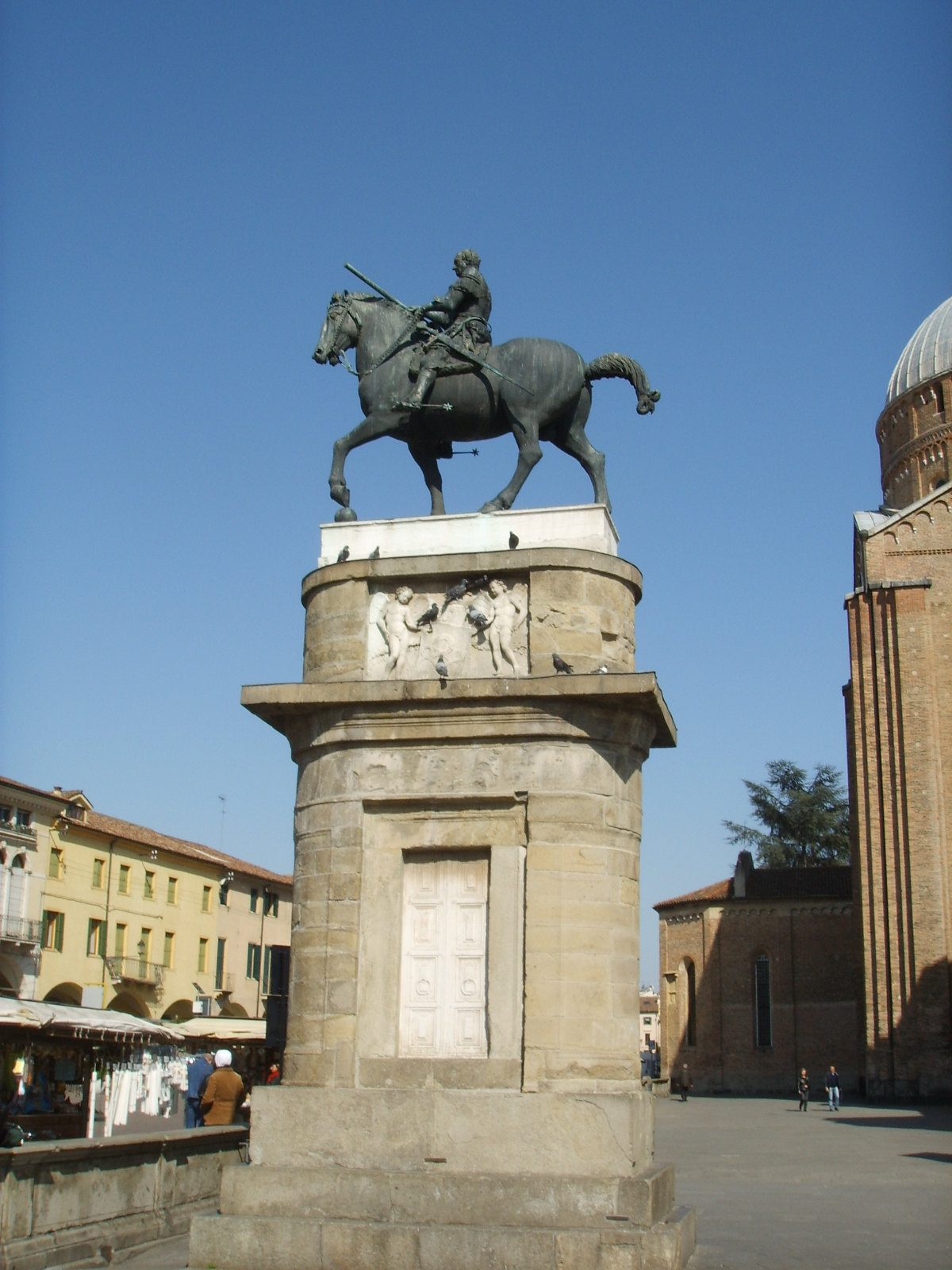 Equestrian statue of Gattamelata by Donatello, on Piazza del Santo (Padua)